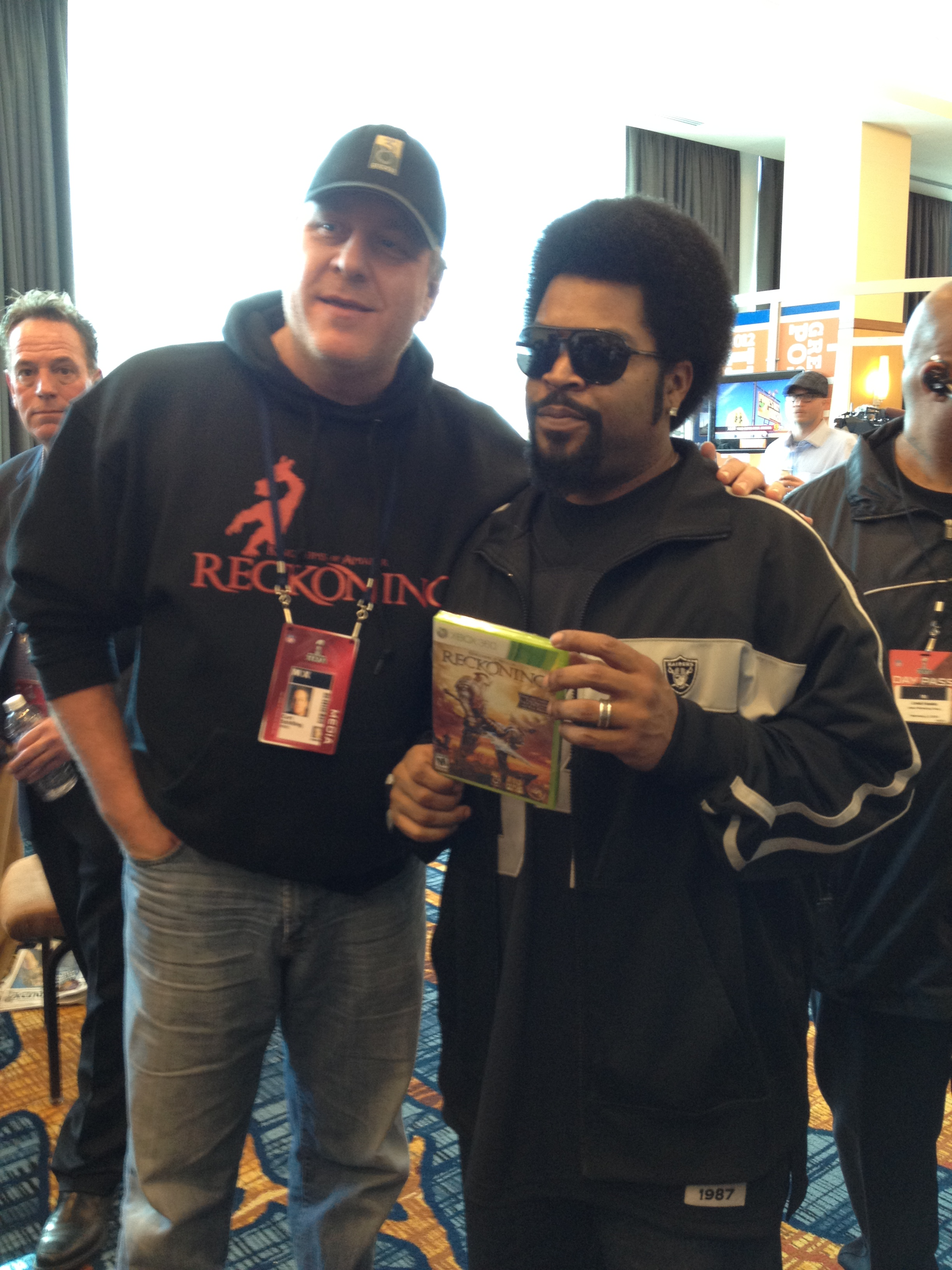 Promoting Kingdoms of Amalur